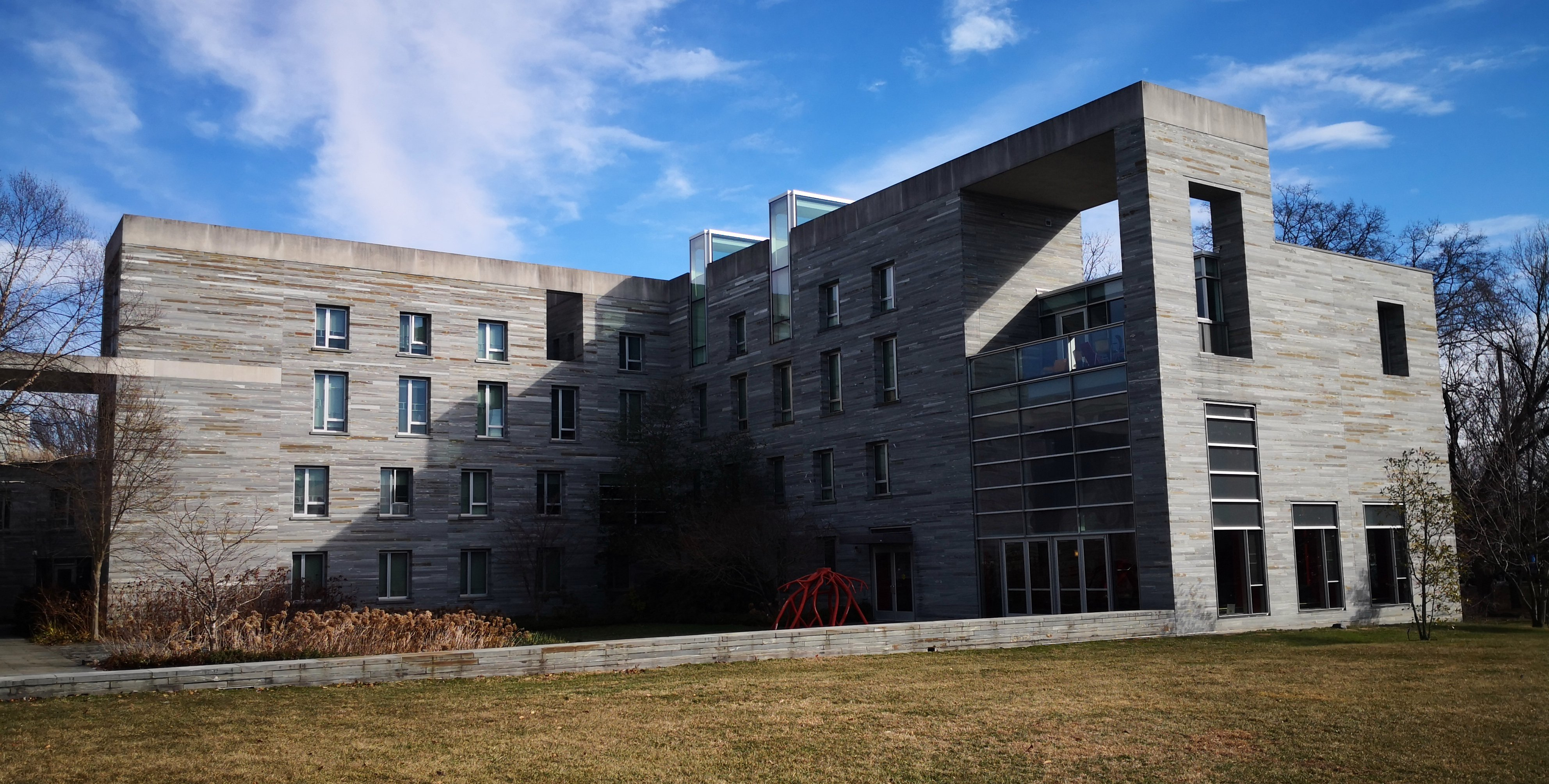 Alice Paul dorm, Swarthmore College